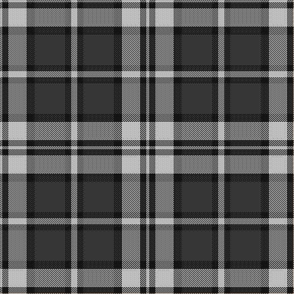 The official tartan of Cape Breton Island in Canada, created in 1957.Thread count: 3 gold 6 black 18 grey 8 black 30 green 6 black 6 gold